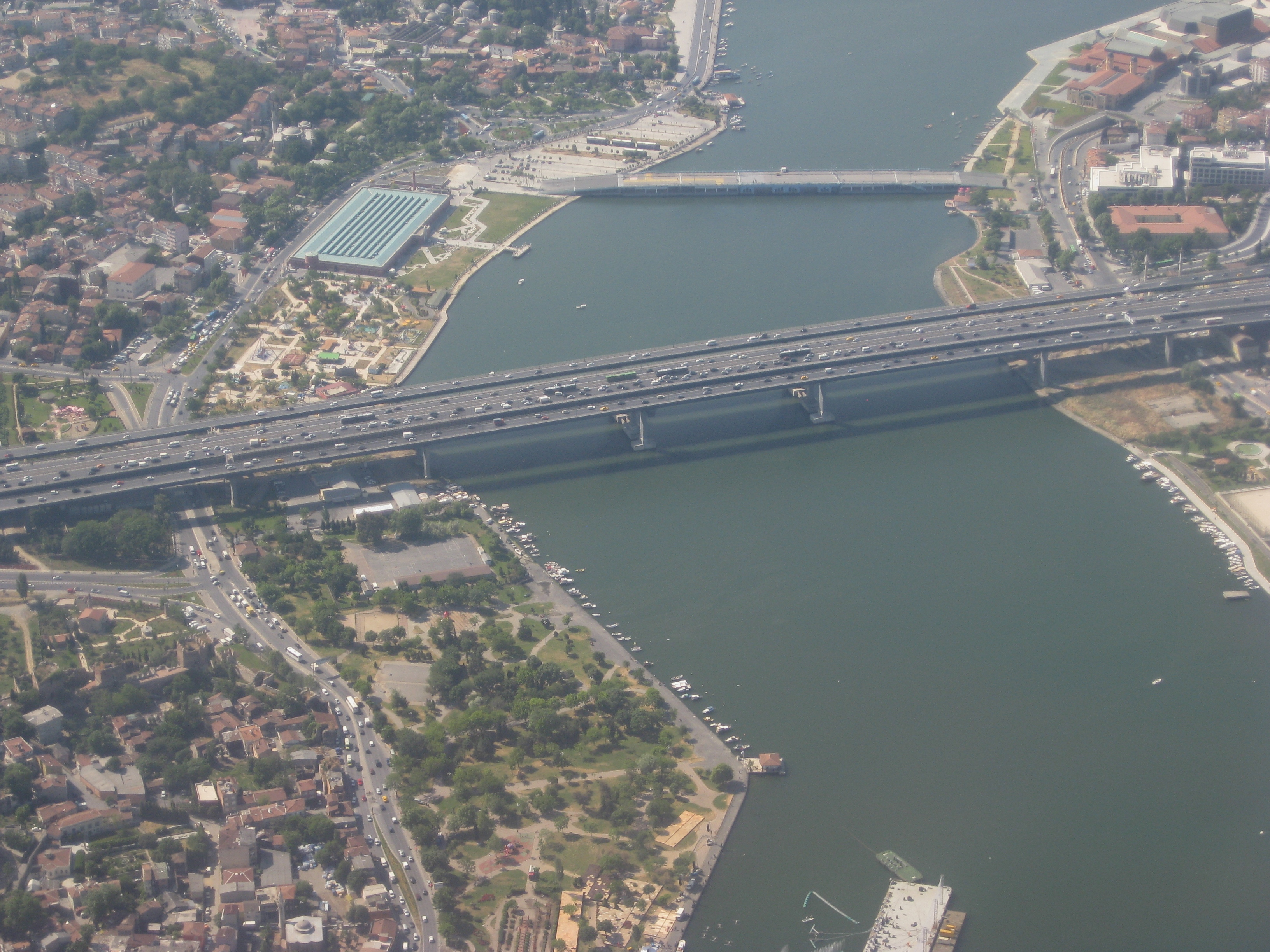 Halic Bridge Feshane Park i090614 066